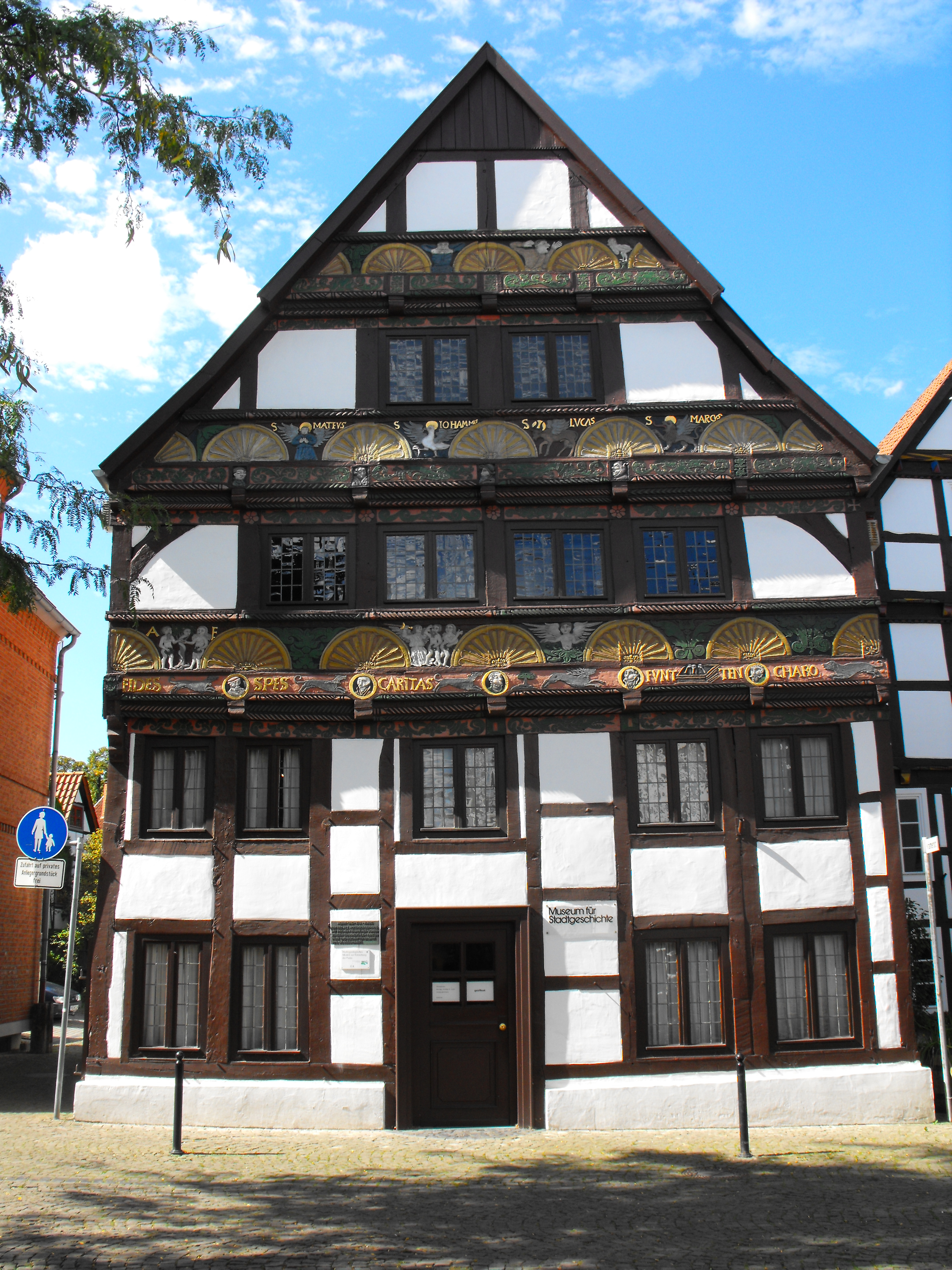 Museum for city history, Paderborn, Germany